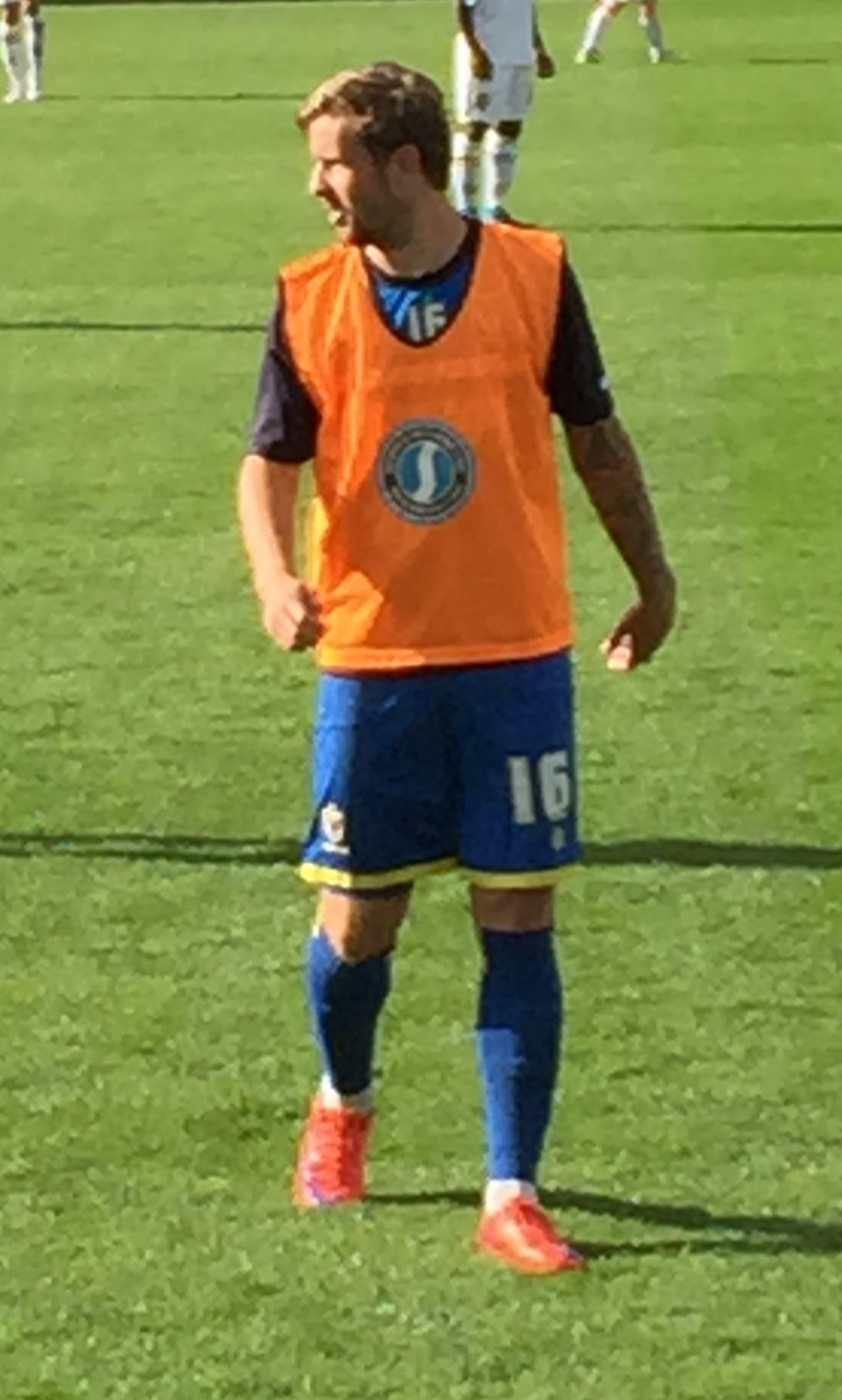 AFC Wimbledon player Tom Beere making his way towards the substitutes' bench at the beginning of the second half versus Notts County on 19 September 2015. Cropped from a larger image